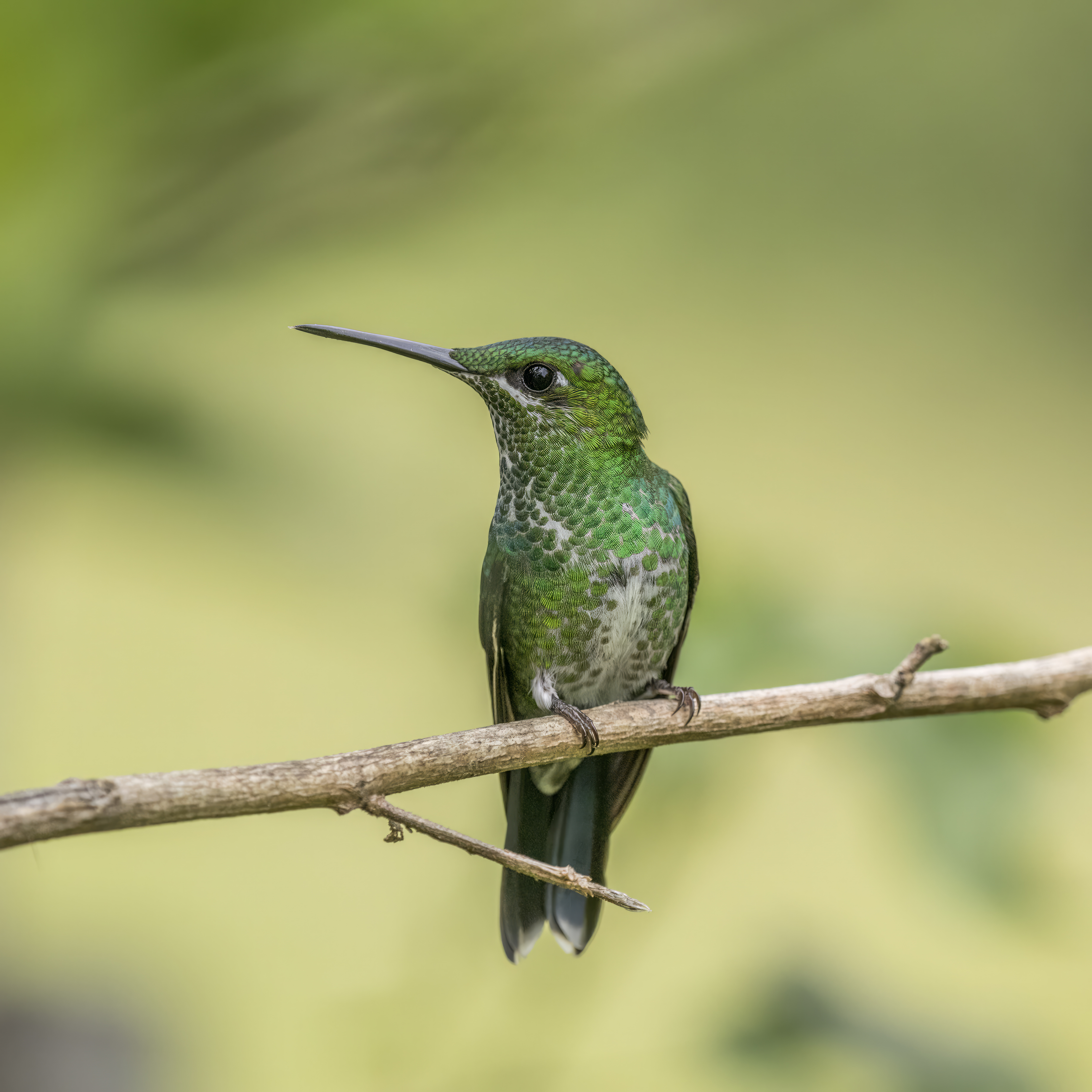 Green-crowned brilliant (Heliodoxa jacula henryi) female, Mount Totumas cloud forest, Panama